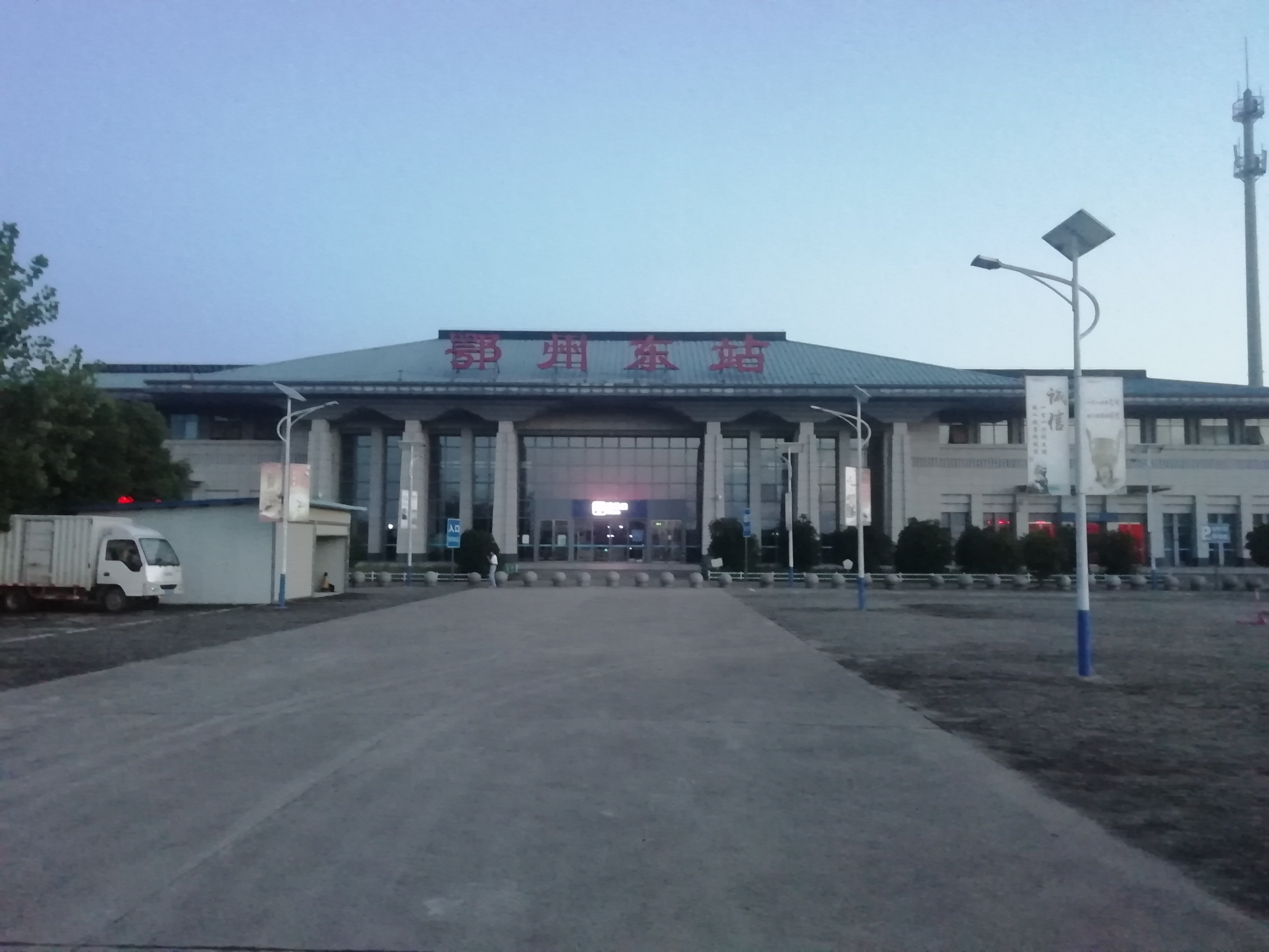 Ezhou East Railway Station, a railway station in Echeng District, Ezhou